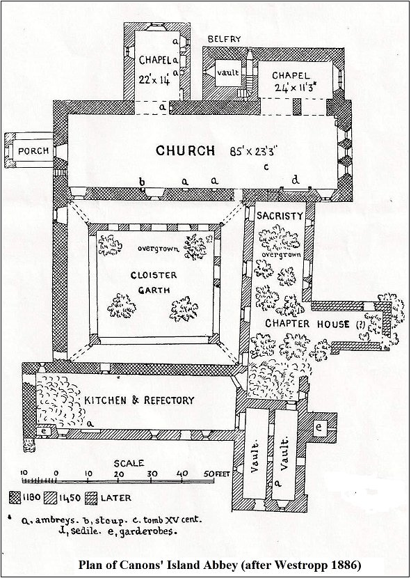 Plan of Cannon Island Abbey, County Clare, Ireland by Thomas Westropp 1886